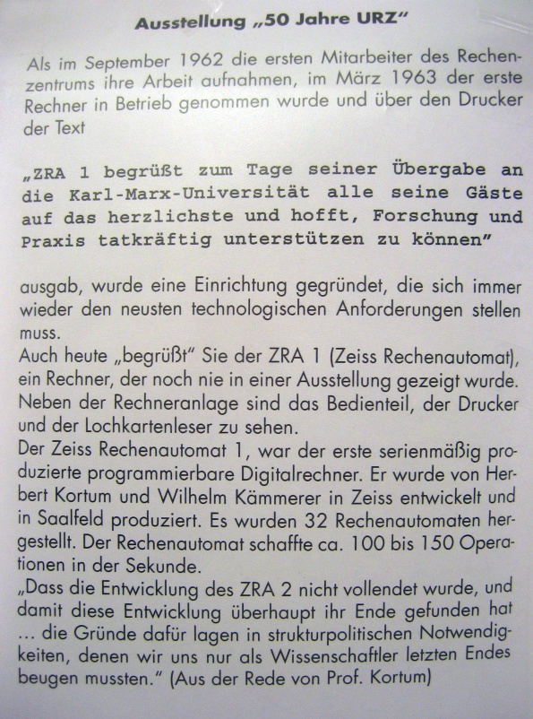 Description plate for the ZRA 1 in the exhibition "50 Jahre Universitätsrechenzentram Leipzig (50 years university computer centre leipzig)